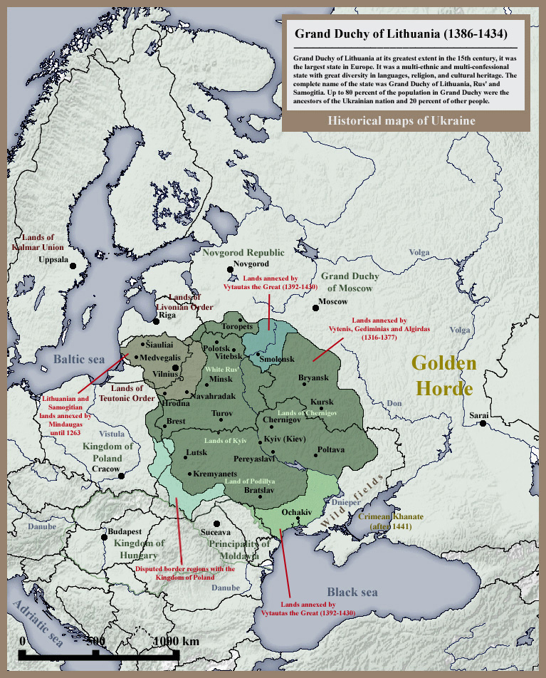 Historical map of Grand Duchy of Lithuania, Rus' (Ukraine) and Samogitia until 1434. From collection of historical maps of Ukraine.